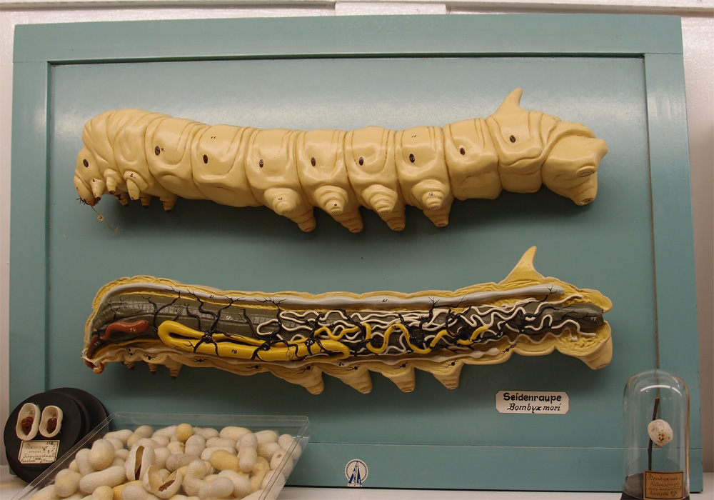 Model from the zoological collection Rostock, Germany. see also for more information on the models